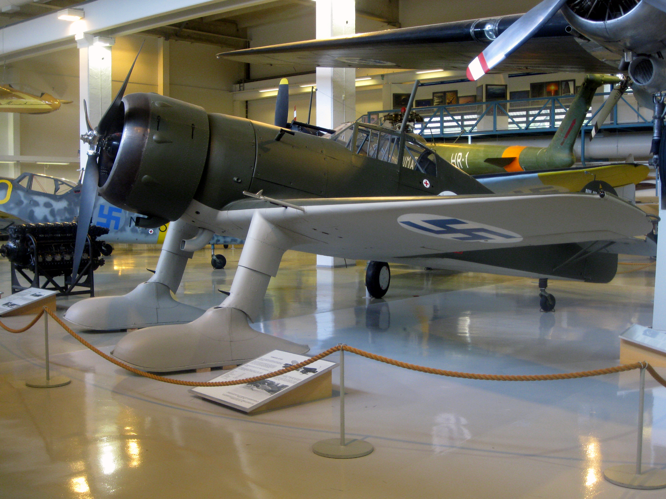 Fokker D.XXI (FR-110) in Aviation Museum of Central Finland.